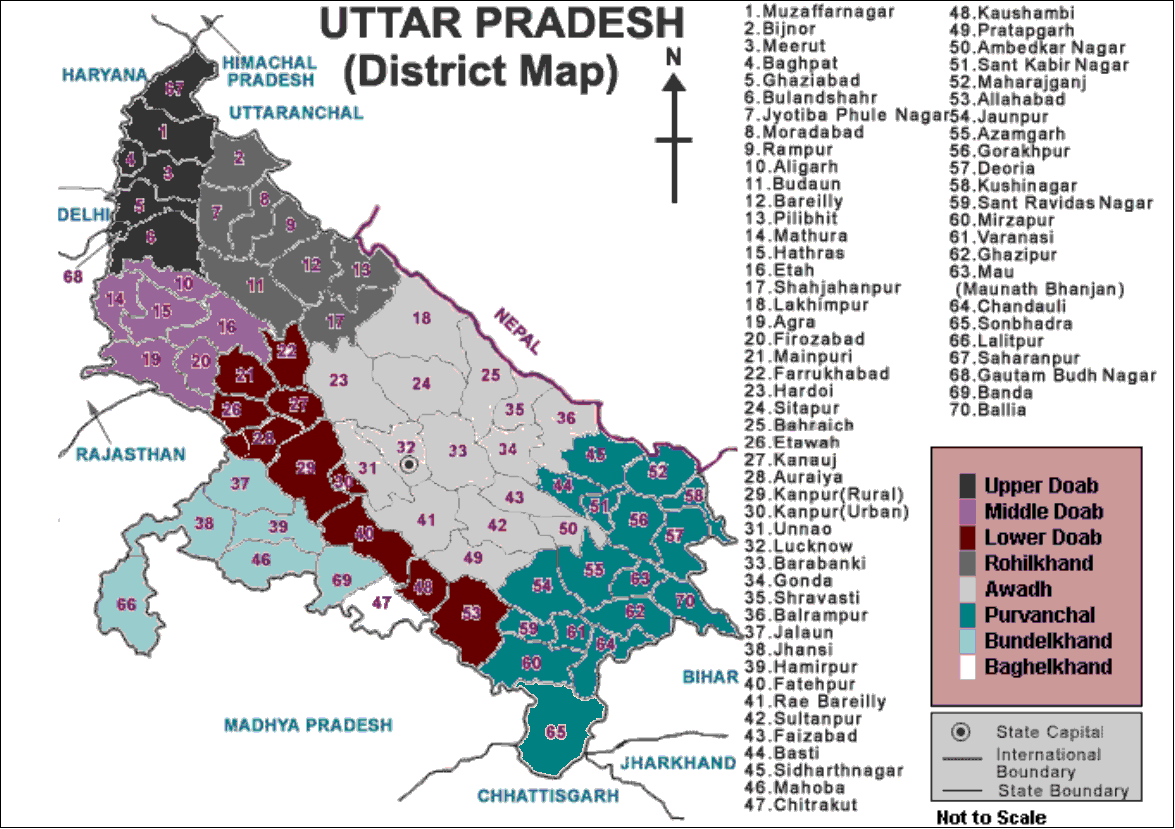 This map depicts regions of Uttar Pradesh: Upper Doab Middle Doab Lower Doab Rohilkhand Awadh Purvanchal Bundelkhand Baghelkhand